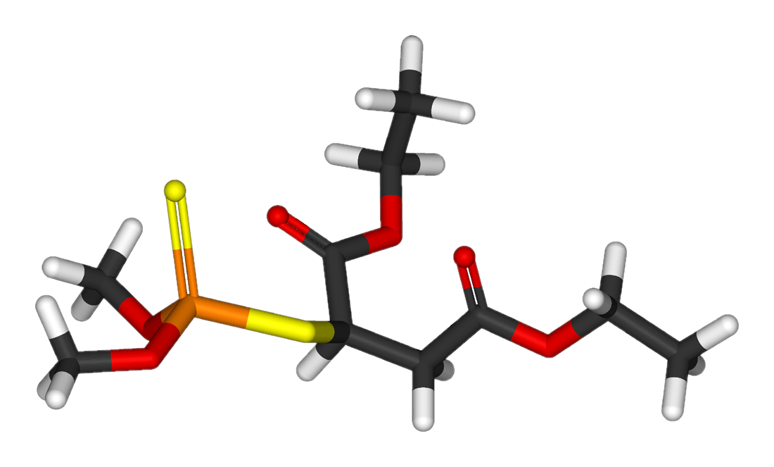 Malathion-3D-sticks